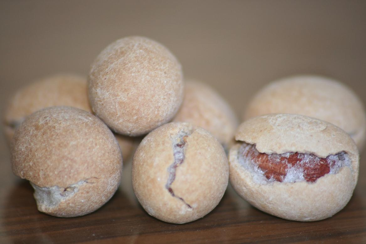 Kabukim, popular Israeli snack